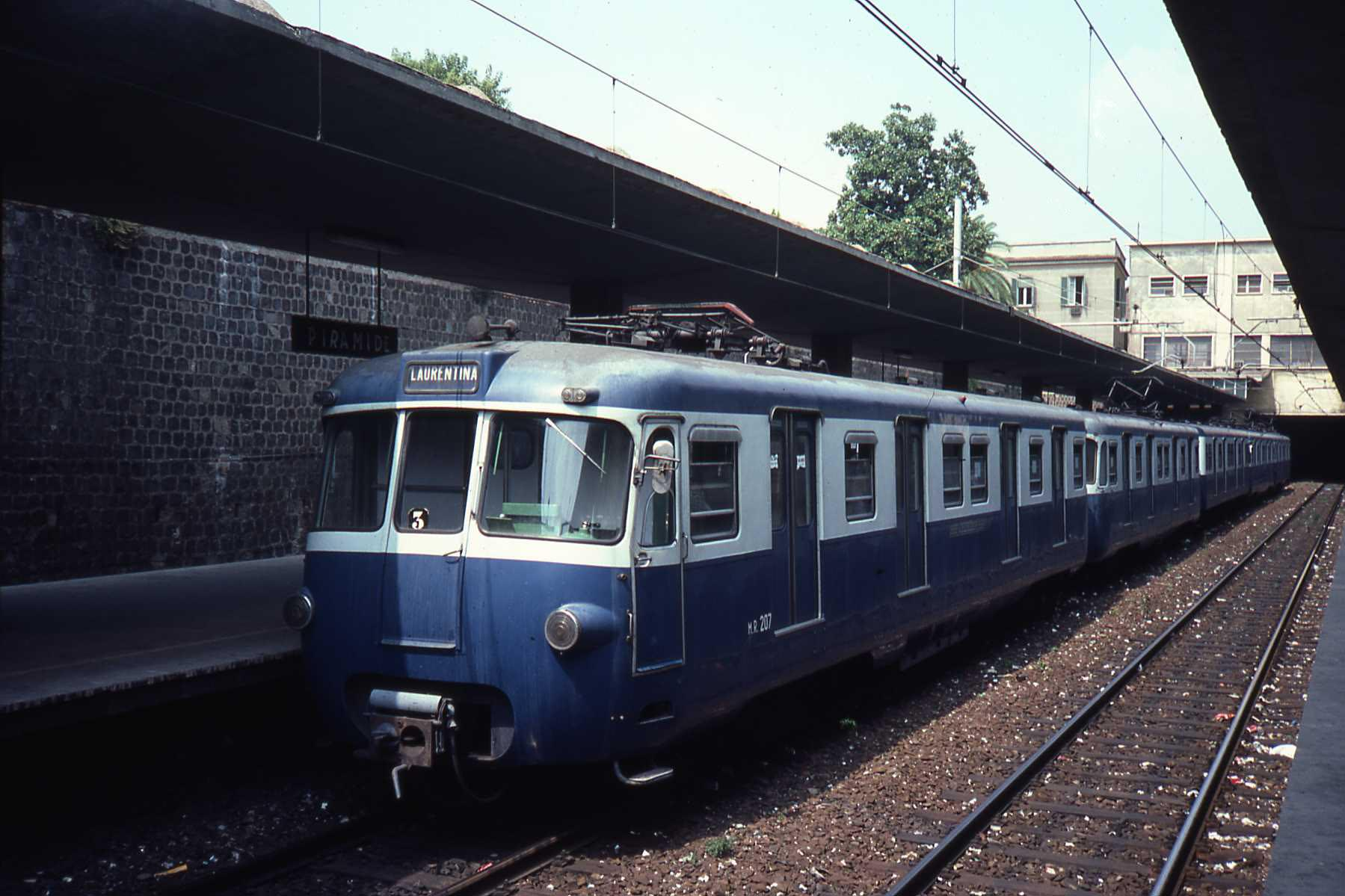 An old MR200 train numbered 207 formerly in service on Rome Metro B at Piramide station. In 1984 the line was Termini - Laurentina, later it was expanded to Rebibbia - Laurentina.